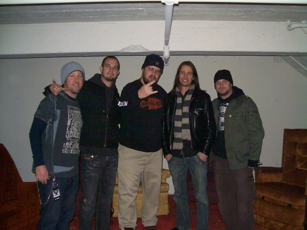 Stopped by the Kampout For Kids Concert and hooked up with Alter Bridge. Have not seen these guys since they ditched Scott Stapp.